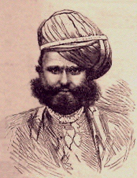 Muhammad Jorawar Sher Khan, Nawab of Radhanpur, (1822-1874)